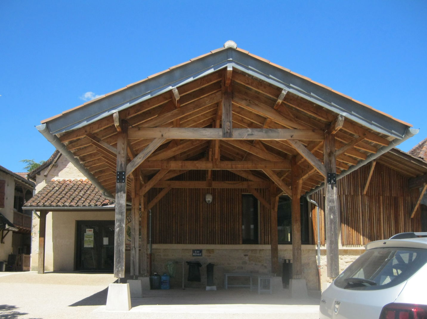 Picture of the shelter on hiking trail GR 65 in town Faycelles in Lot department, France. This building can be used by walkers, pilgrims or hikers to have a rest on a bench, to get free drinkable water and to throw away their litter in a waste container.